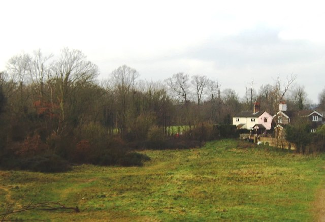 The Gore, Burnham (Bucks) The Gore is a triangular shaped hollow at the western end of Burnham. Could it once have been a gravel pit? Taken from the corner of Hitcham Lane and Taplow Common Road looking north-west.